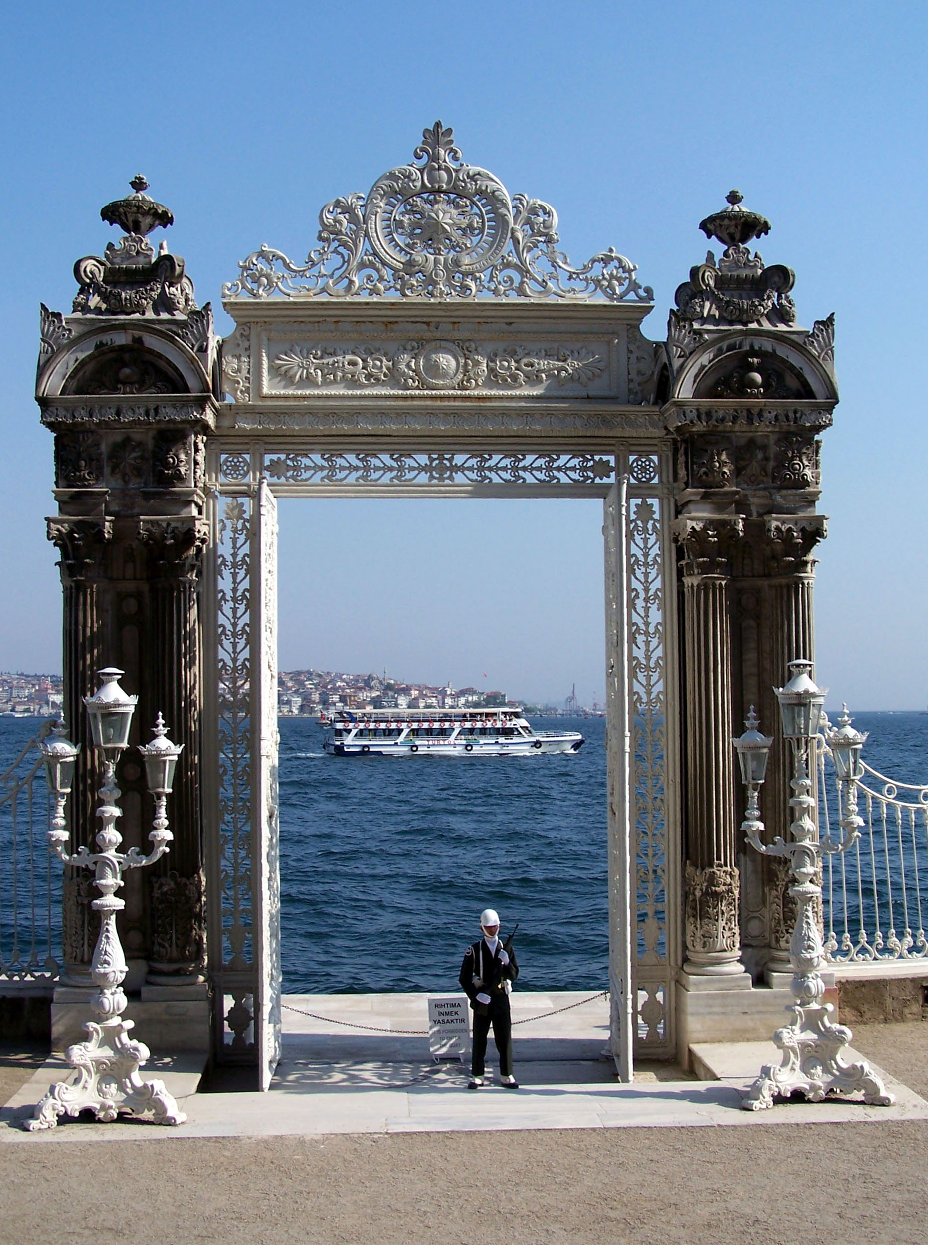 One of the Neoclassical gates of Dolmabahçe Sarayı (palace), facing the Bosphorus — Istanbul, Turkey.